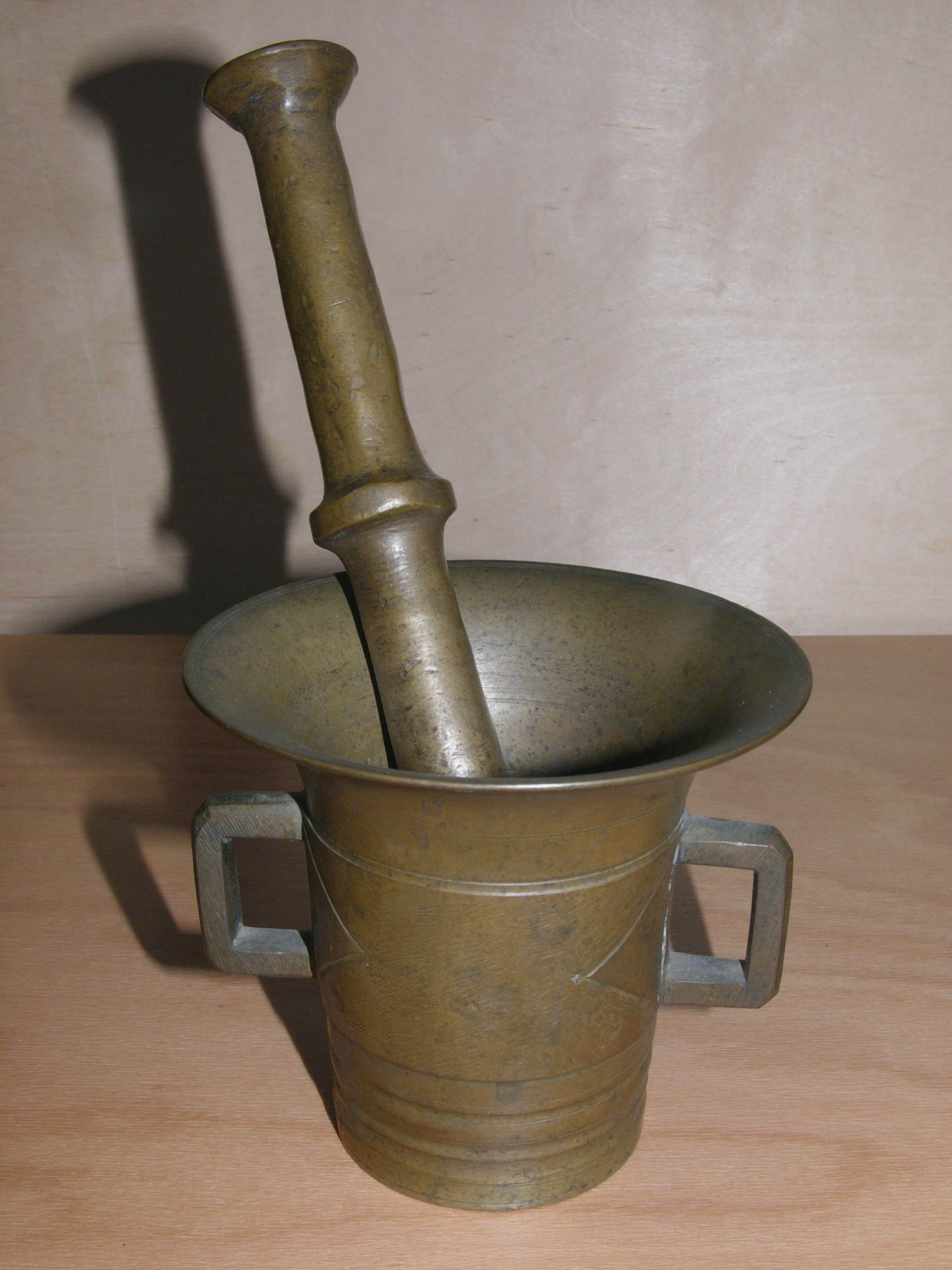 Mortar made out of bronze